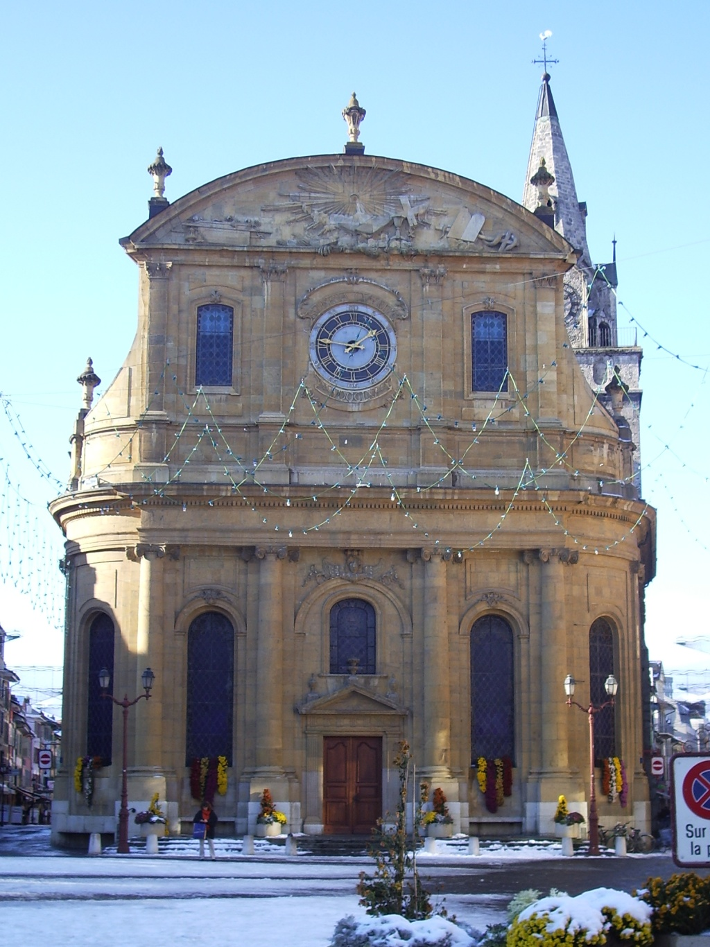 Church at Place Pestalozzi in Yverdon-les-Bains (Switzerland)